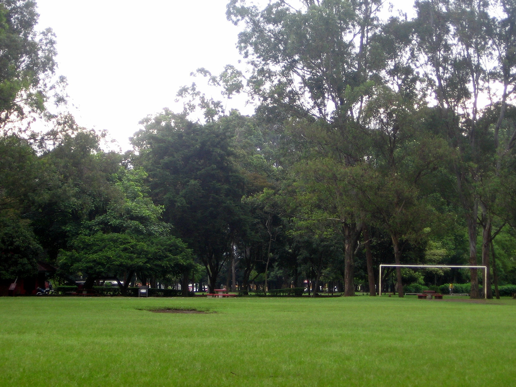 La Sabana Metropolitan Park — large urban park in San José, Costa Rica. Trees and soccer/futbal field.